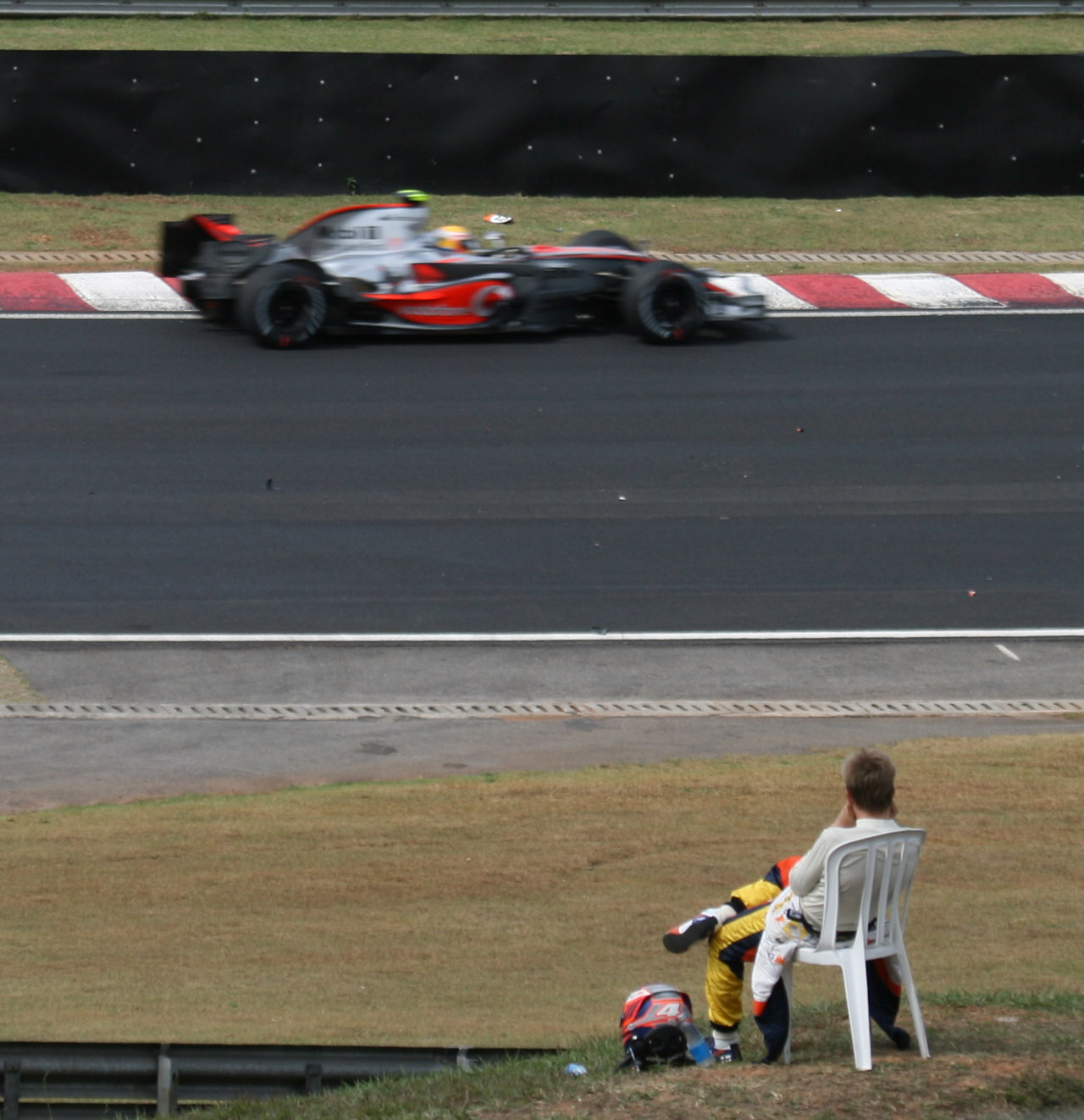 Formula One 2007 Rd.17 Brazilian GP: Heikki Kovalainen (Renault) watching the race.